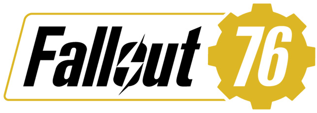 Logo of Fallout 76 video game.